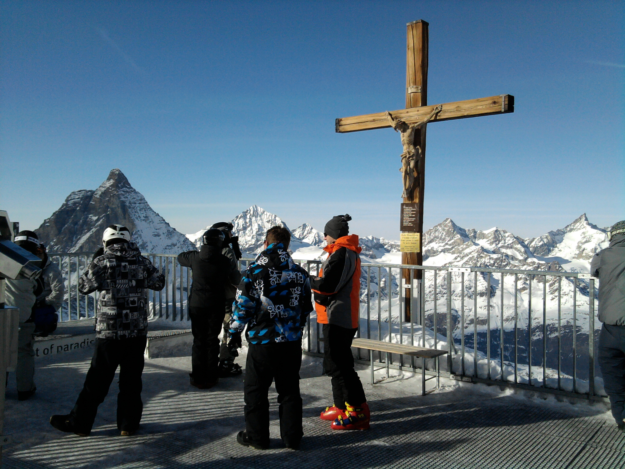 Klein Matterhorn